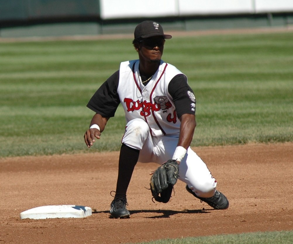 Eugenio Vélez playing second base for the Lansing Lugnuts in 2005. 17:48, 3 November 2007 . . StormXor . . 1,002×837 (188 KB)